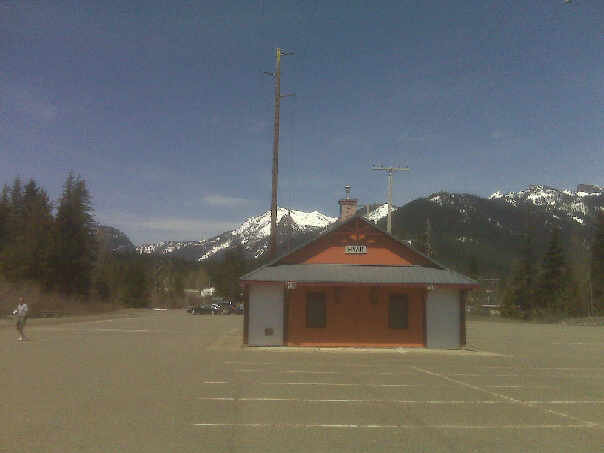 Ironhorse trailstop in Hyak, WA